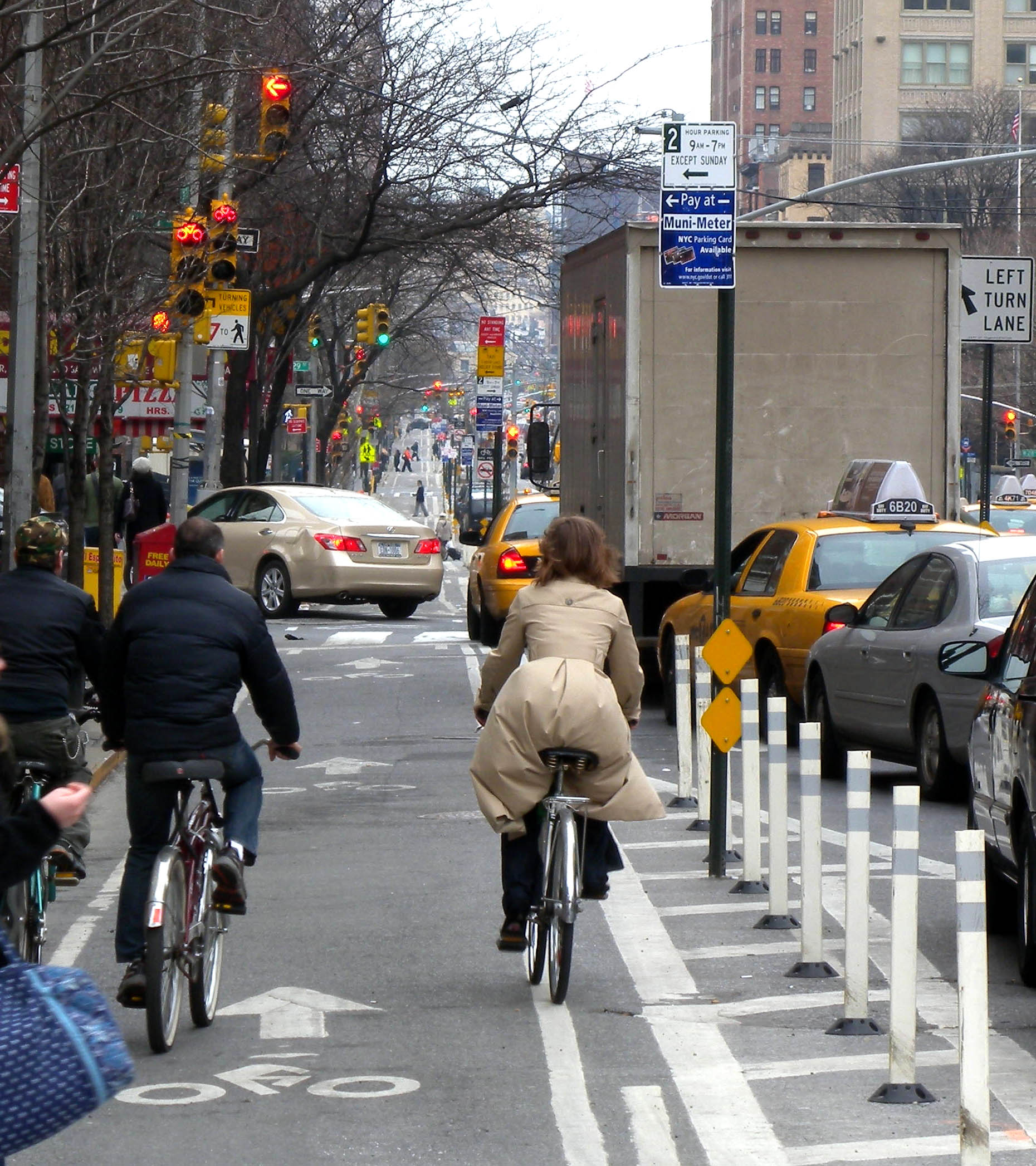 Looking south from 30th Street at bike lane in 9th Ave on a cloudy afternoon.